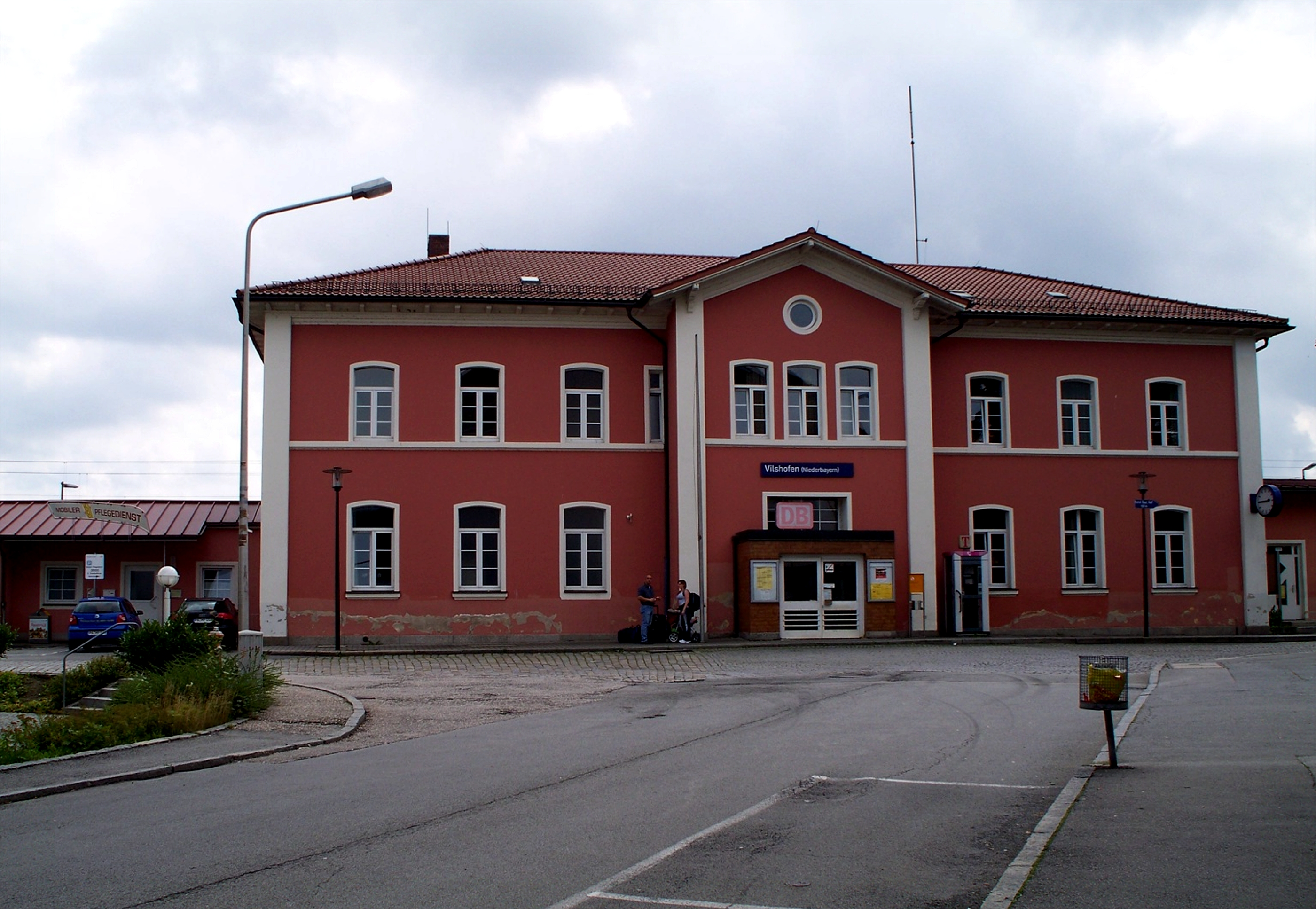 Train station of Vilshofen an der Donau.